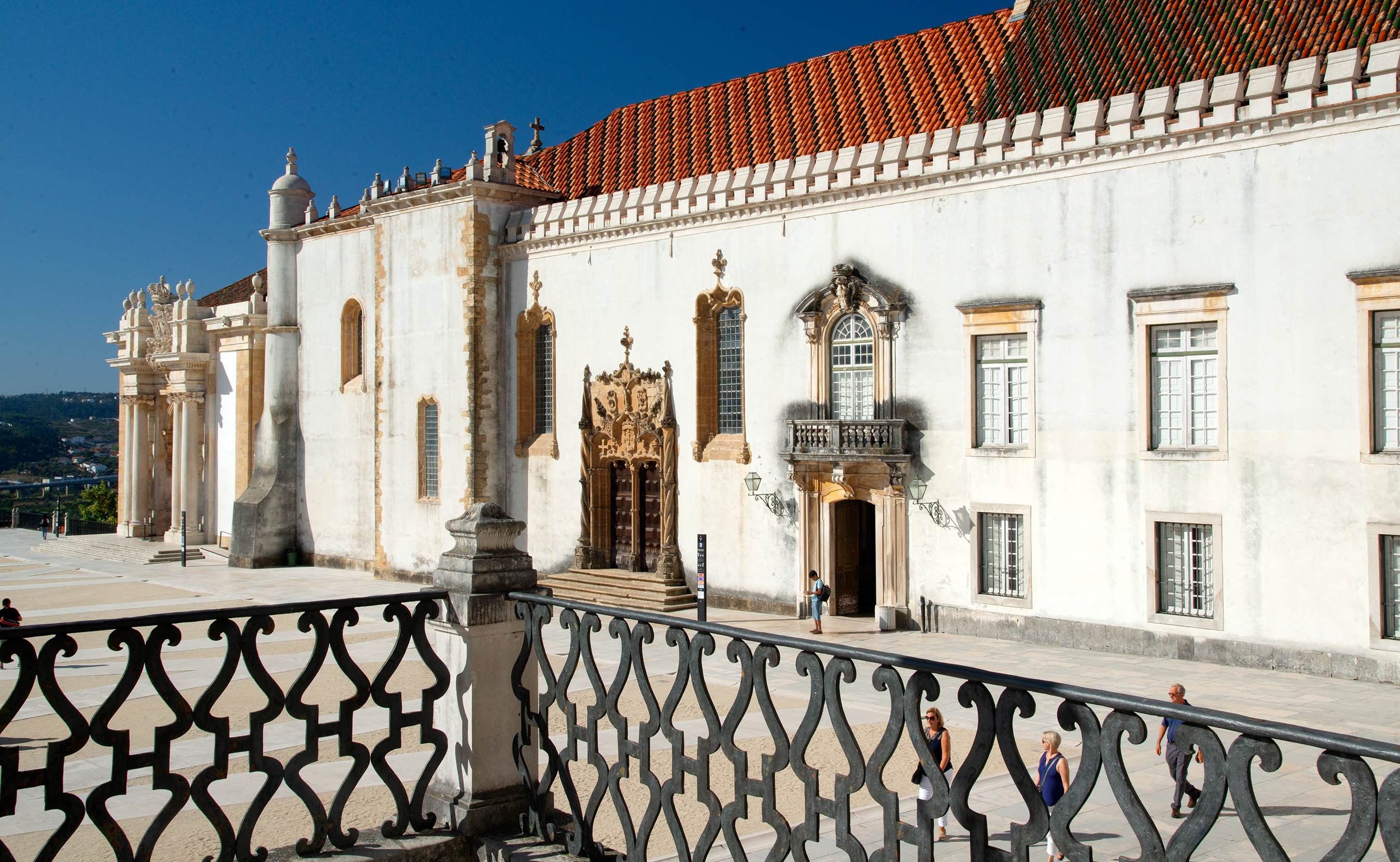 The larger door in the photo is the entrance to the chapel